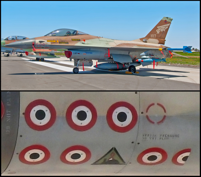 This is a F-16A Netz number 107 of the Israeli Air Force. The Netz 107 has an unmatched combat record in the IDF: it bombed the Iraqi nuclear reactor in 1981, and in 1982 it shot down 7 enemy fighter jets (one was a joint interception with another Israeli fighter). The 6.5 killing marks that the F-16 107 Netz makes it to be the F-16 fighter jet with the highest number of interceptions and shot downs in the world. Photo by Zachi Evenor and MathKnight, approved by the IDF censor.